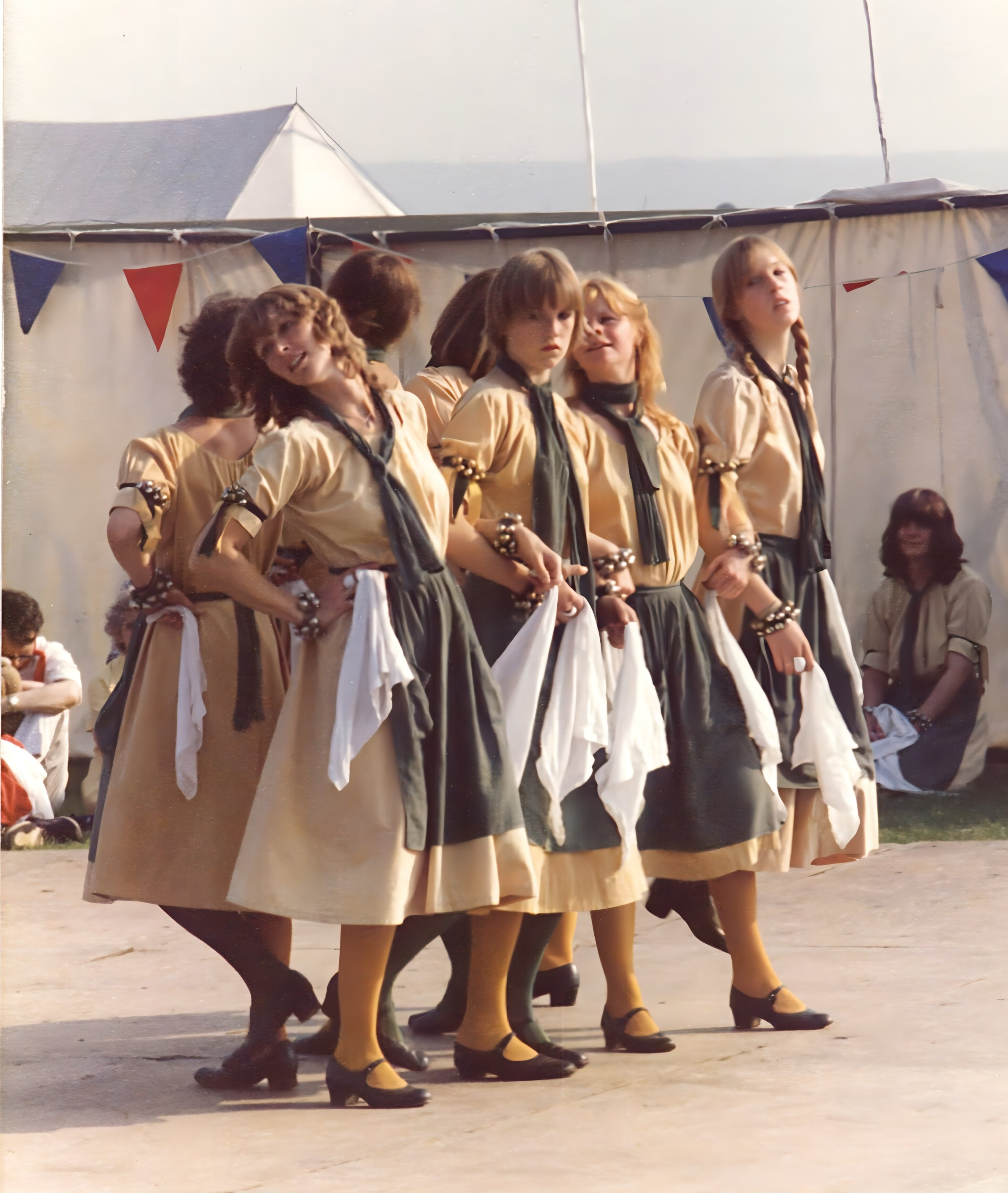 Martha Rhoden's Tuppenny Dish, UK Womens Border Morris team, at the 1980 Towersey Festival (Tony Rees photograph)